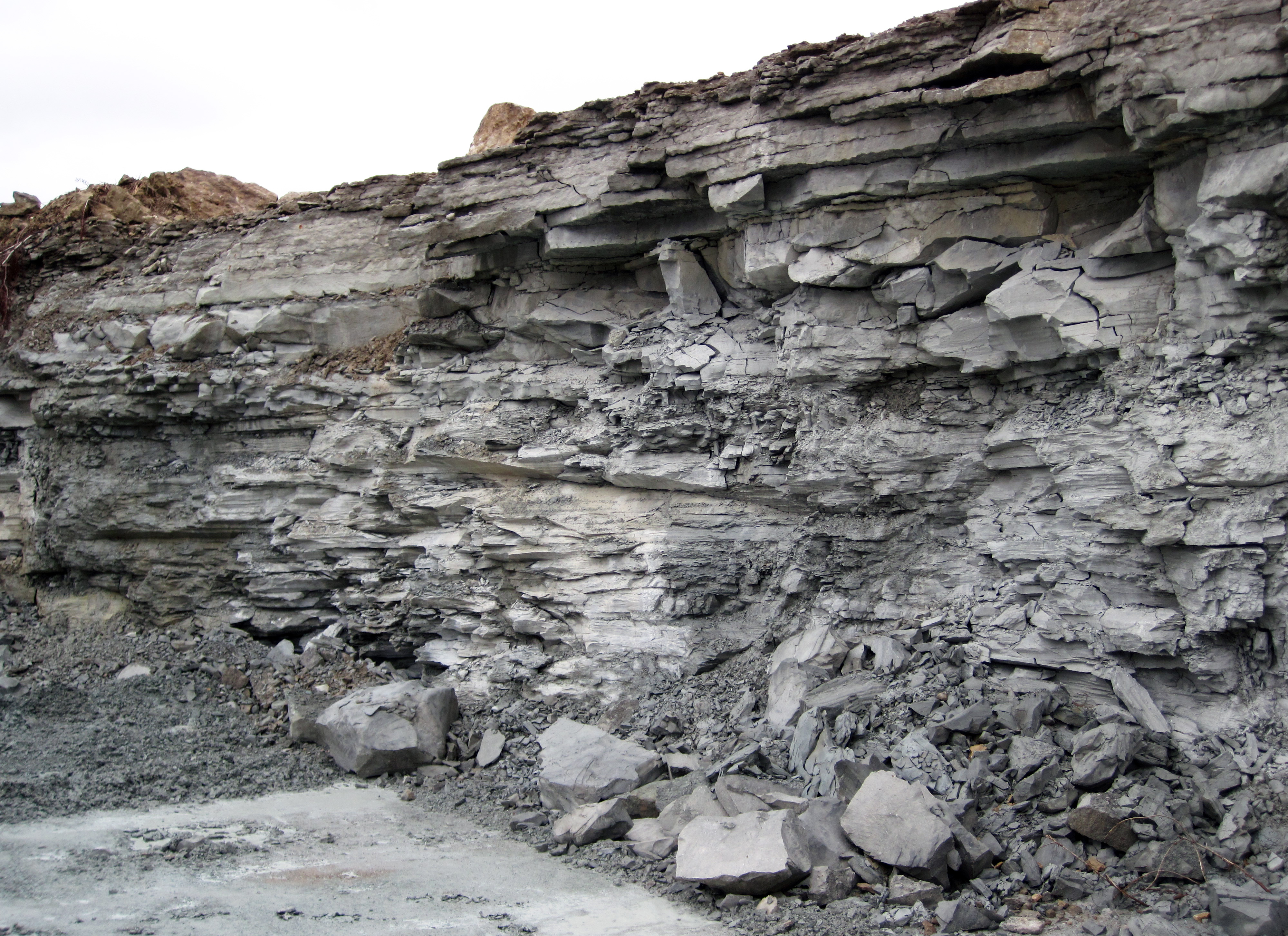 Gray shales in the Silurian of Indiana, USA. The St. Paul Stone Quarry in St. Paul, Indiana, USA has four Middle Paleozoic stratigraphic units exposed along the walls: Geneva Dolomite Member of the Jeffersonville Limestone (Lower Devonian) Louisville Limestone (Middle Silurian) Waldron Shale (Middle Silurian) Laurel Member of the Salamonie Dolomite (Middle Silurian) The above photo shows gray-colored shales - this is the Waldron Shale (Middle Silurian), which is richly fossiliferous in many places. Stratigraphy: Waldron Shale, upper Niagaran Series (upper Wenlockian), Middle Silurian Locality: St. Paul Stone Quarry, 1 mile northwest of the town of St. Paul & 1.75 miles southeast of the town of Waldron, southeastern Shelby County, southeast-central Indiana, USA (39° 26' 09.22" North, 85° 38' 38.66" West)